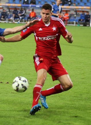 Guzmics in Wisla